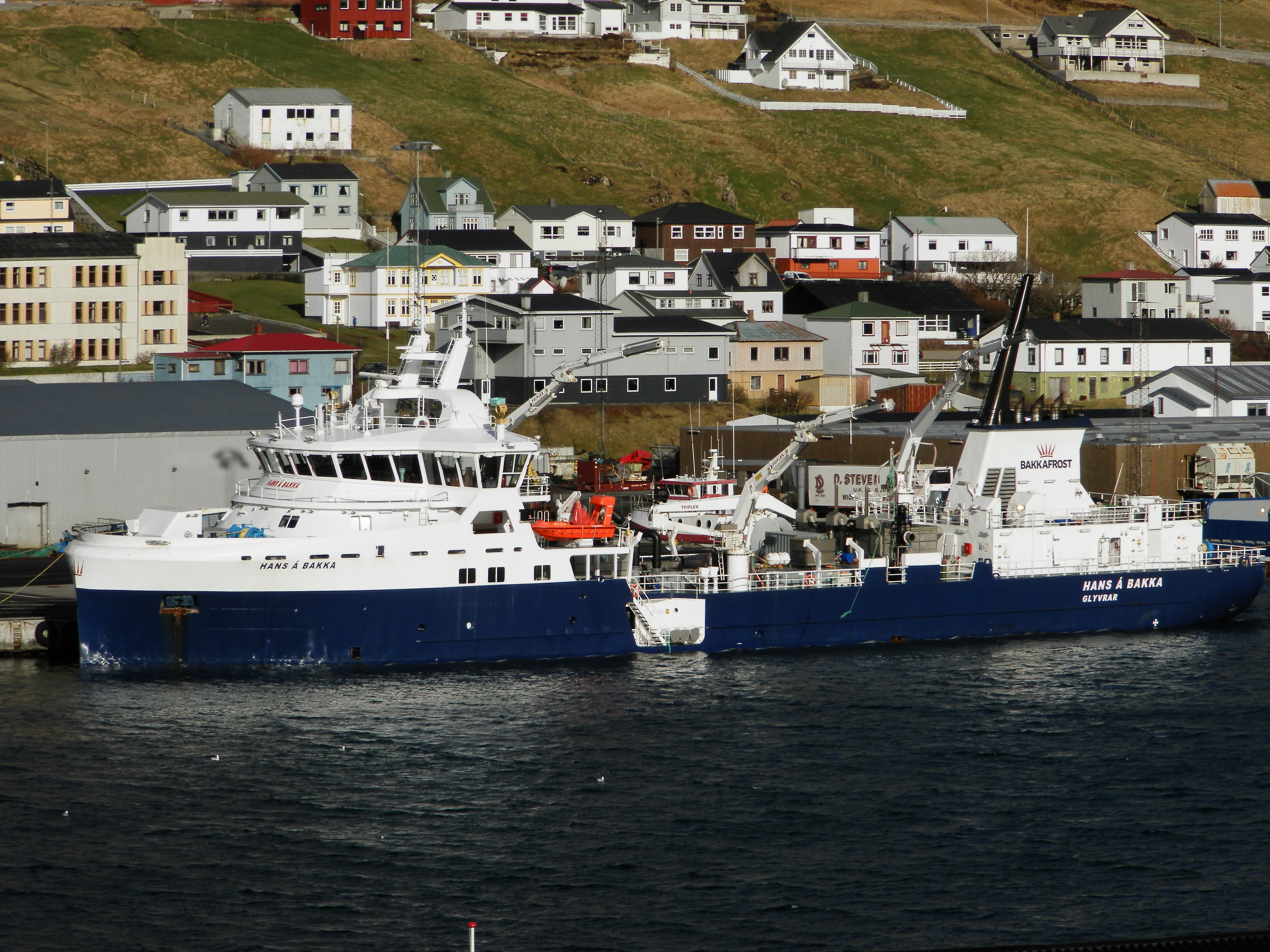 Bakkafrost is the largest salmon farming company in the Faroe Islands. Here is one of their vessels, Hans á Bakka, which is named after one of the brothers who established the company.